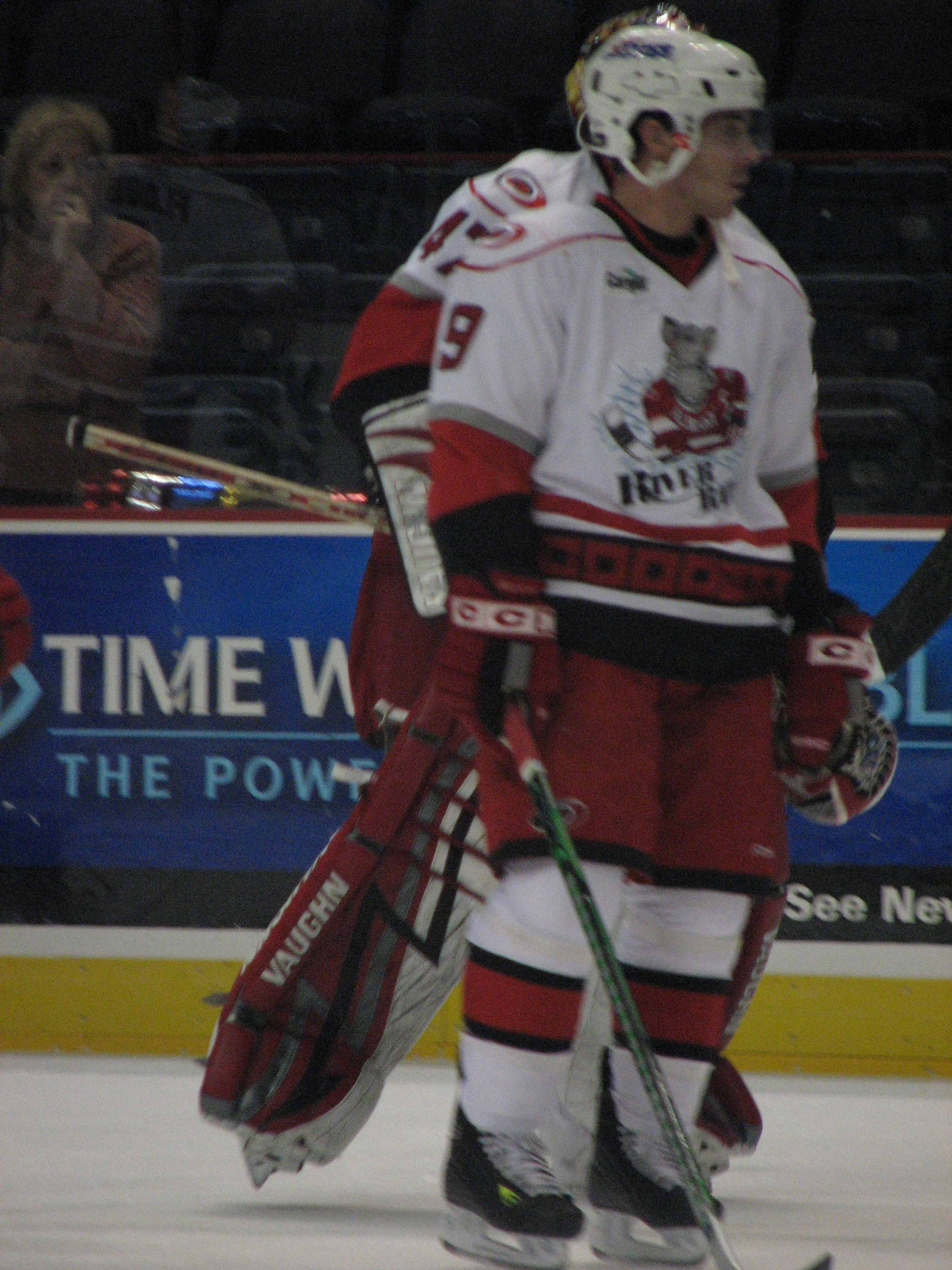 Albany v Philly Albany River Rats vs Philadelphia Phantoms of the American Hockey League (AHL). Taken on January 5, 2008. This photo also appears in goaliej54's Flickr set "Albany River Rats 1-5-08" (Set of 101)